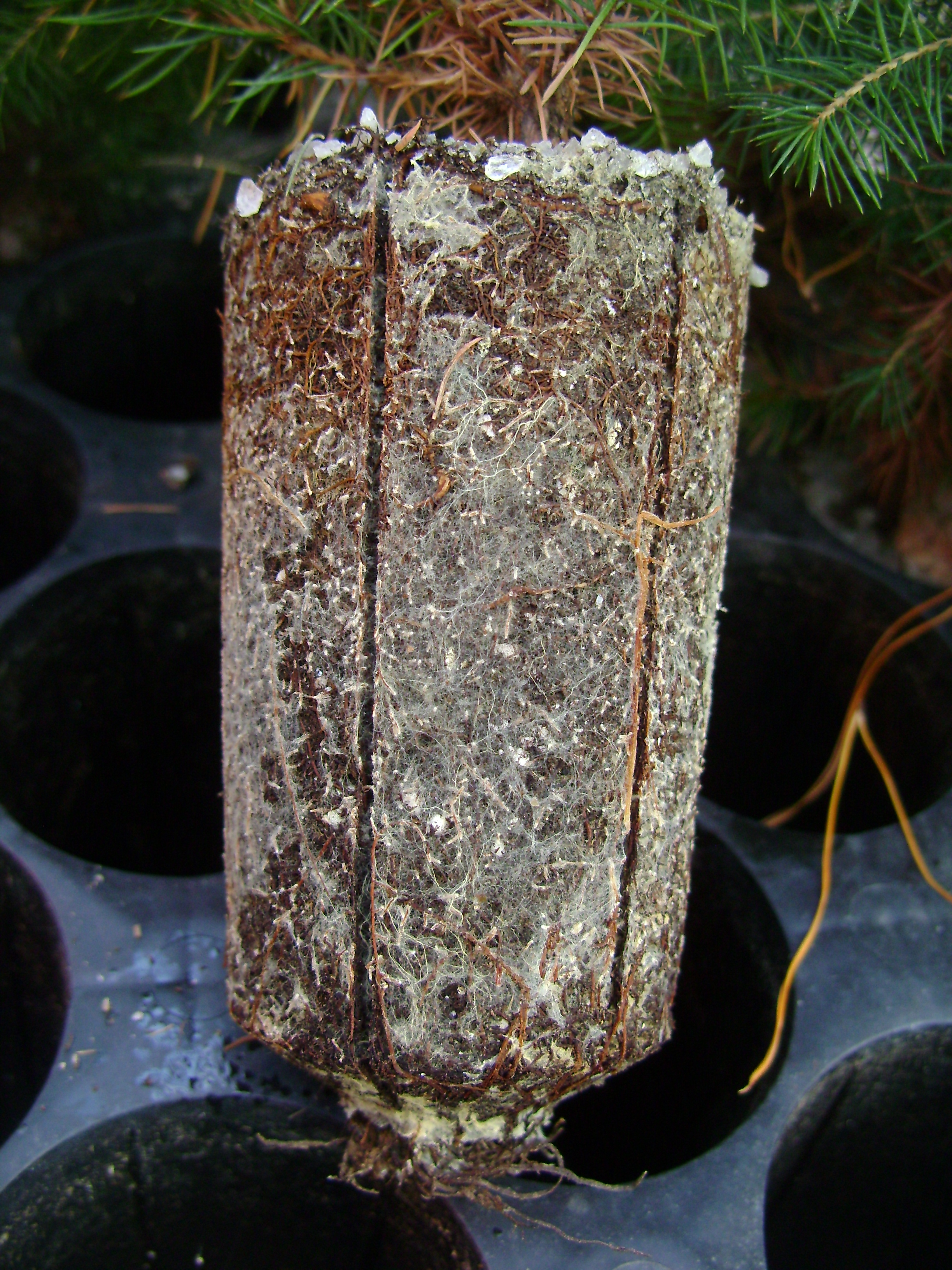 Ectomycorrhizal mycelium (white) associated to Picea glauca roots (brown).